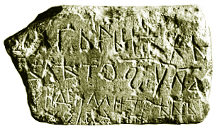 Epigraphic inscription from Dobruja, X-th century, drawing since a picture given by Constatin Chera from the Archaeological museum of Constanta.